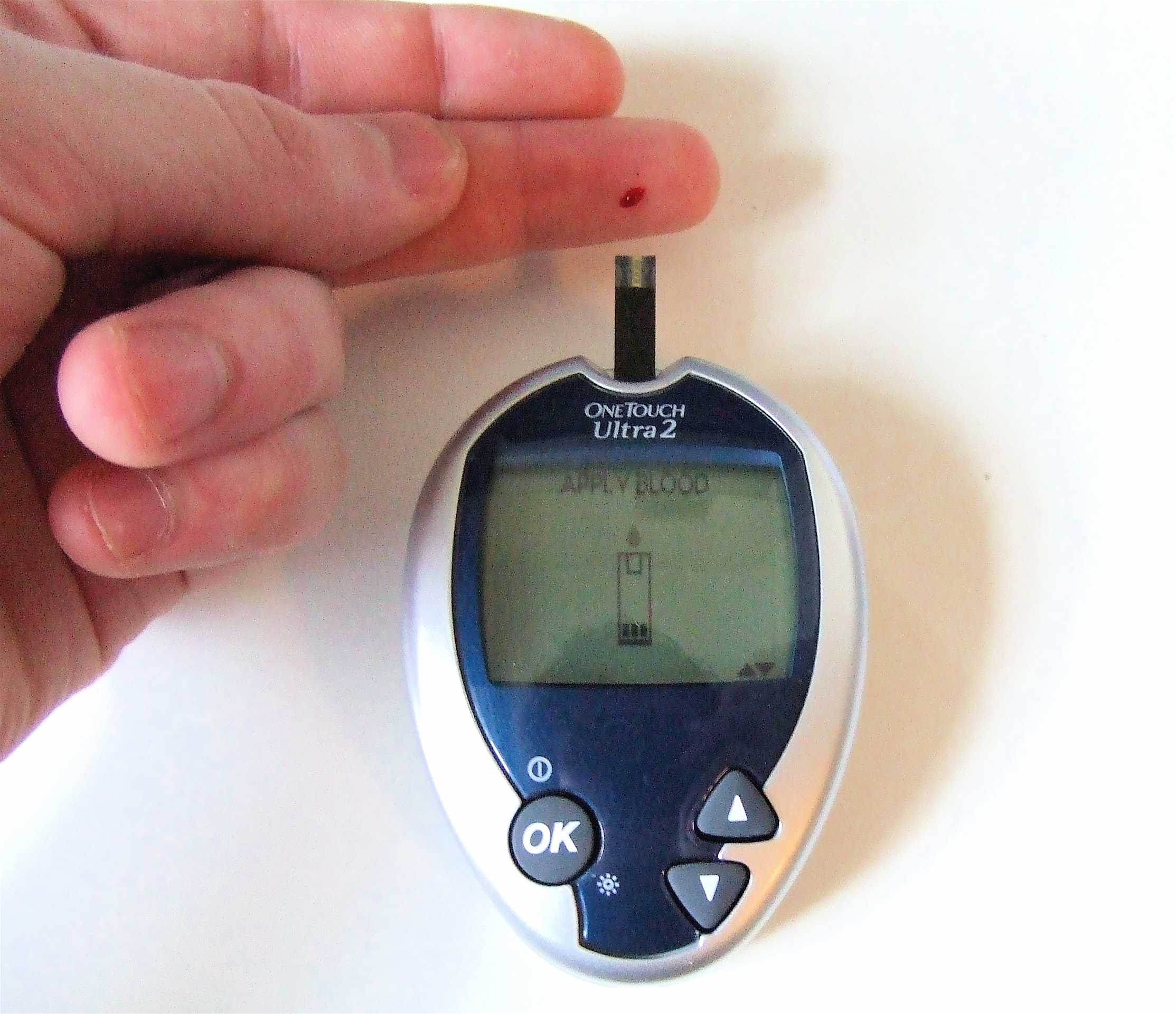 The process of blood glucose testing.